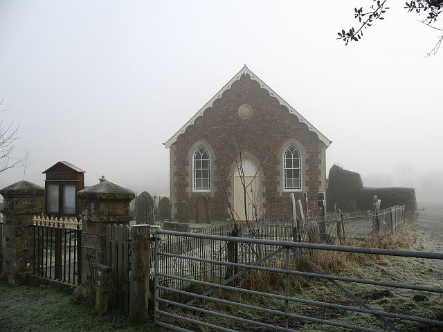 Coxall Baptist Church Coxall is in Herefordshire, the church is in Shropshire - like Richard's Castle. A simple building set amongst grazing land.